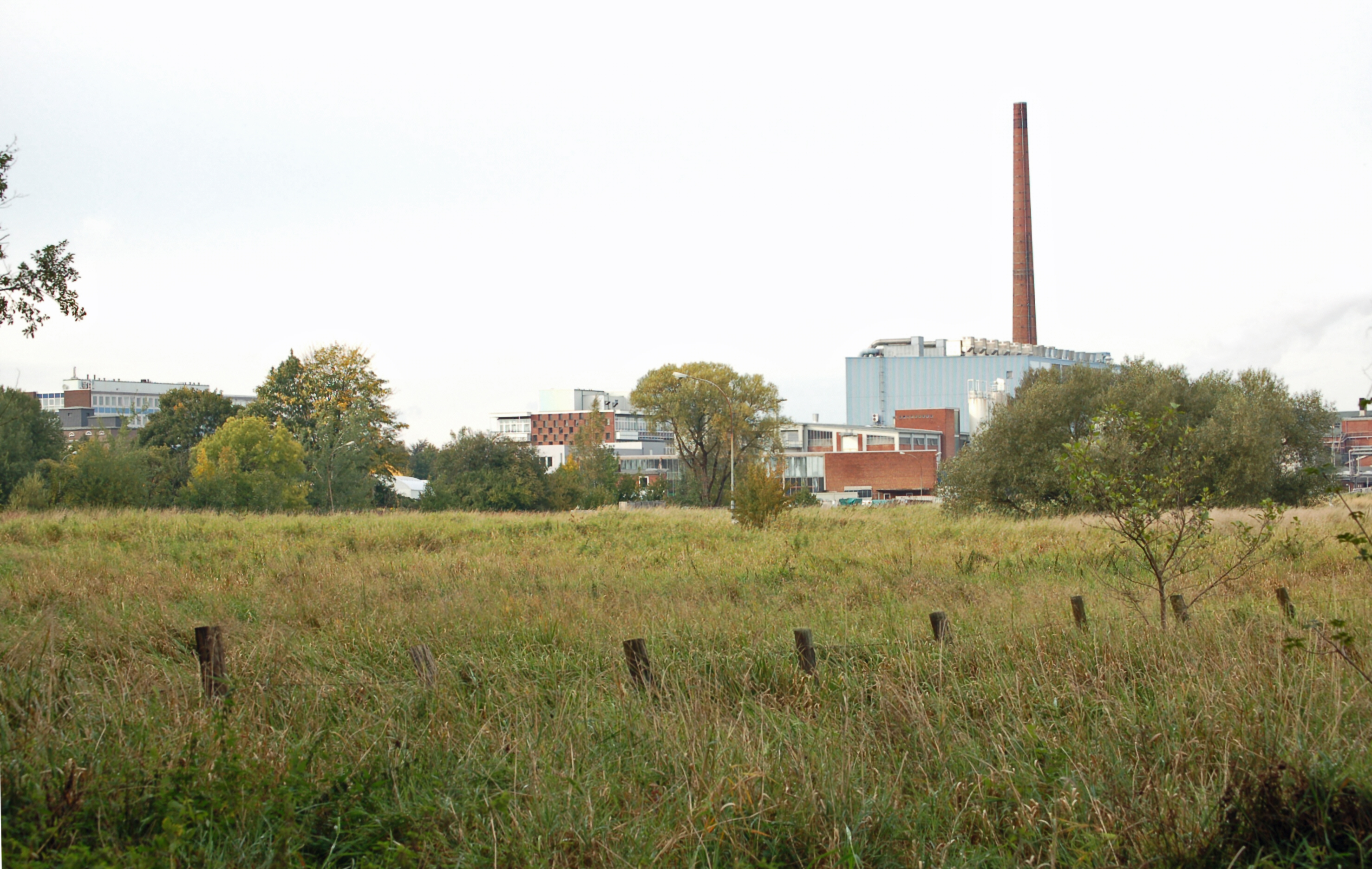 Uetersen of Moorrege of view (left the main building of the pharmaceutical companies Nordmark, right, the building of the paper manufacturer Stora Enso)